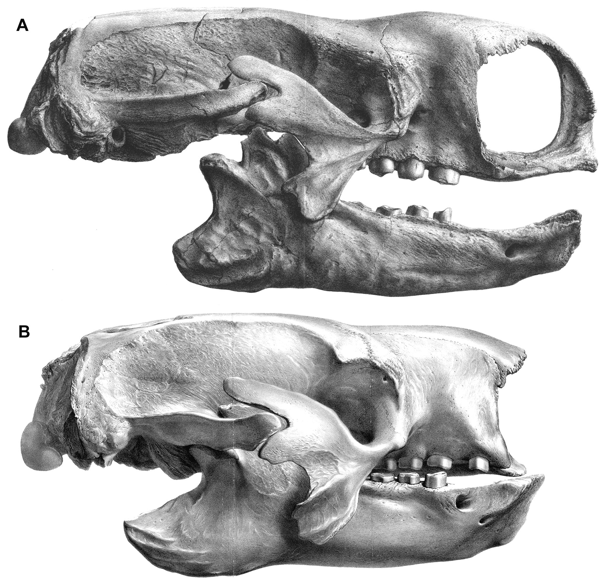 (A) Skull of Mylodon darwinii as featured in Reinhardt (1879). (B) Skull of Glossotherium robustum as featured by Owen (1842).